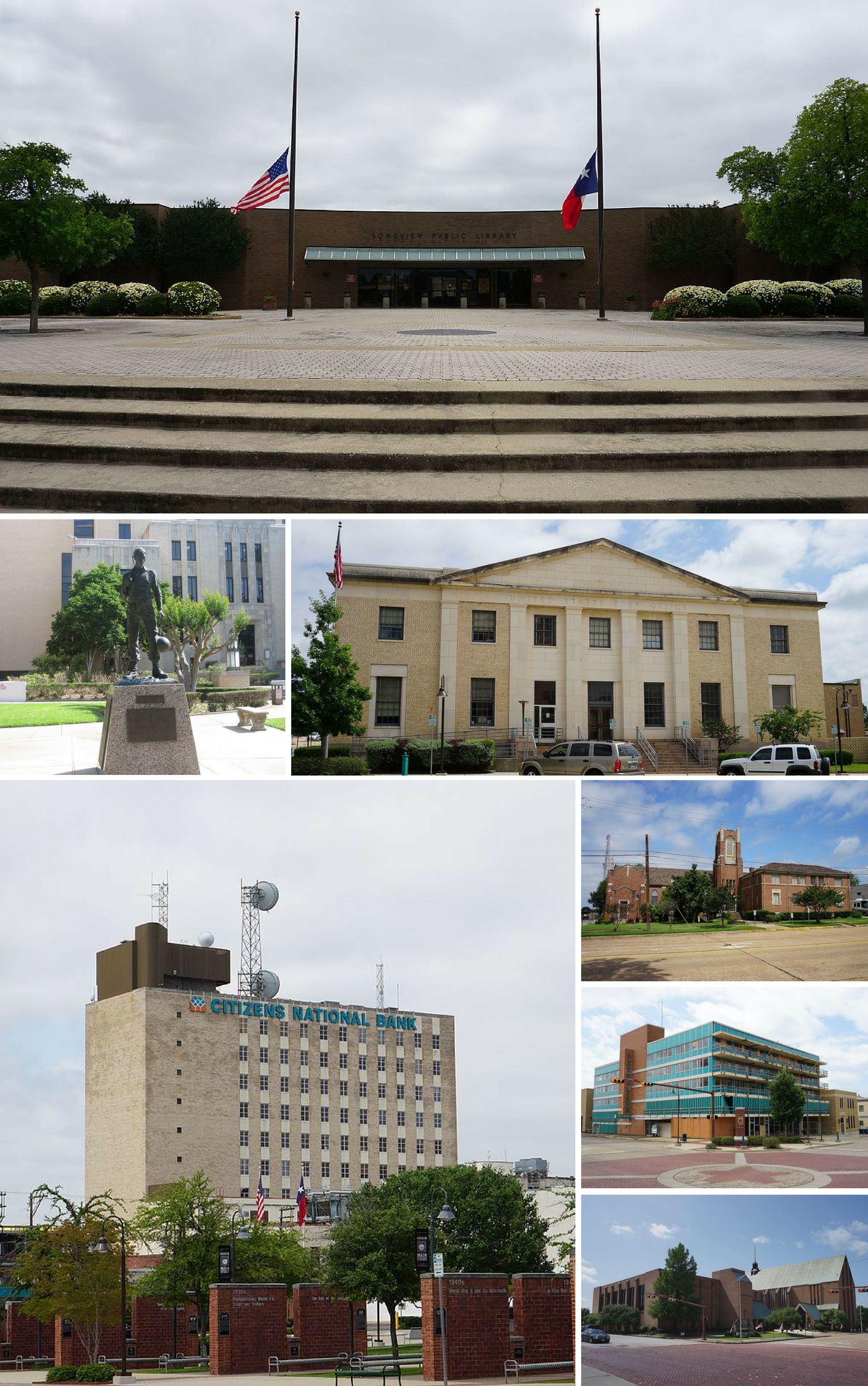 Collage of images of Longview, Texas